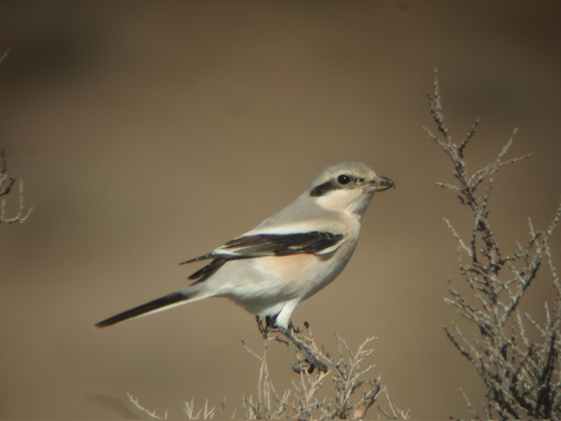 Lanius pallidirostris, South Kazakhstan.